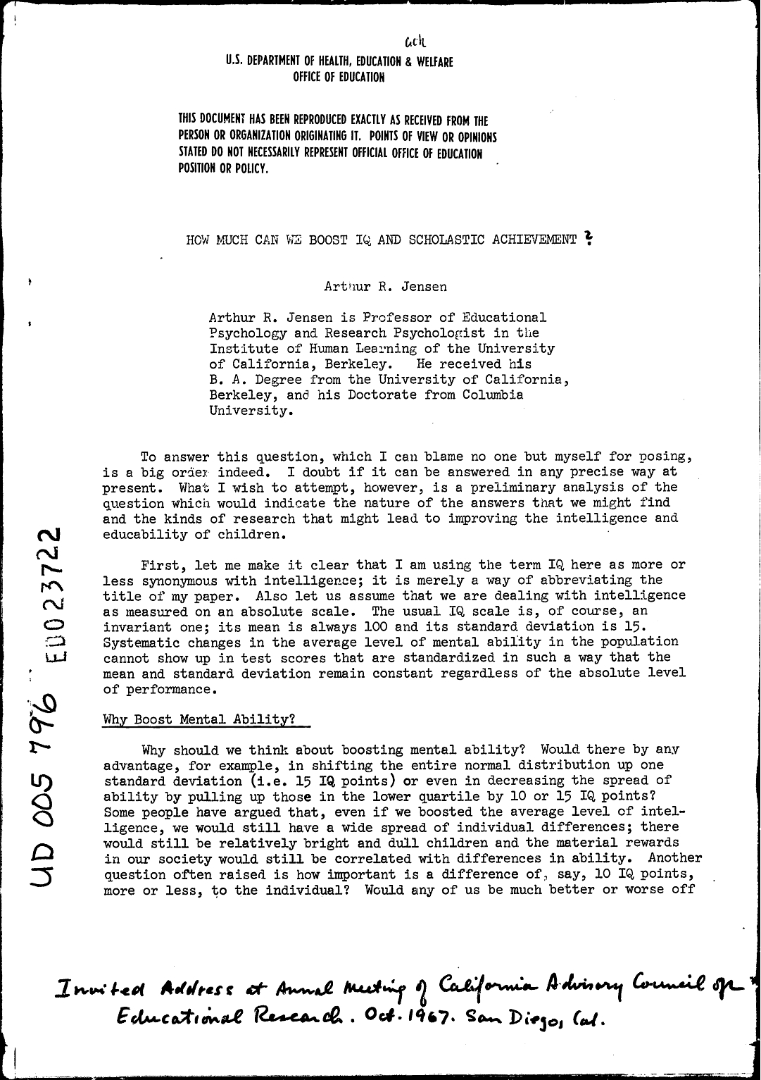 Second page of Department of Education record of talk by Arthur Jensen entitled "How Much Can We Boost IQ and Scholarly Achievement?", at the annual meeting of the California Advisory Council for Educational Research, San Diego, October 1967